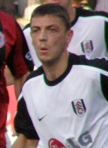 Chris Baird in action for Fulham F.C.